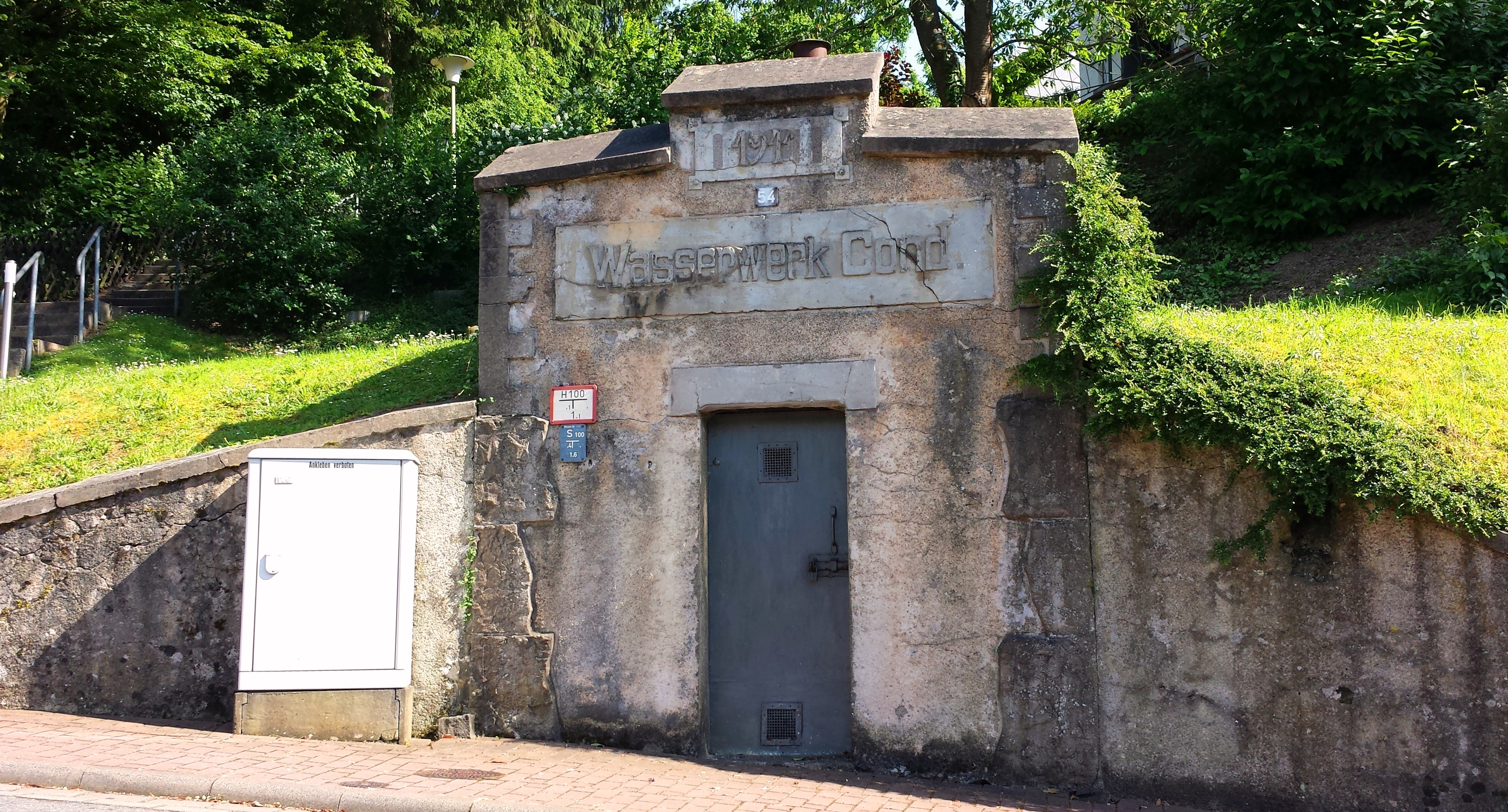 Waterworks in Cond build 1911